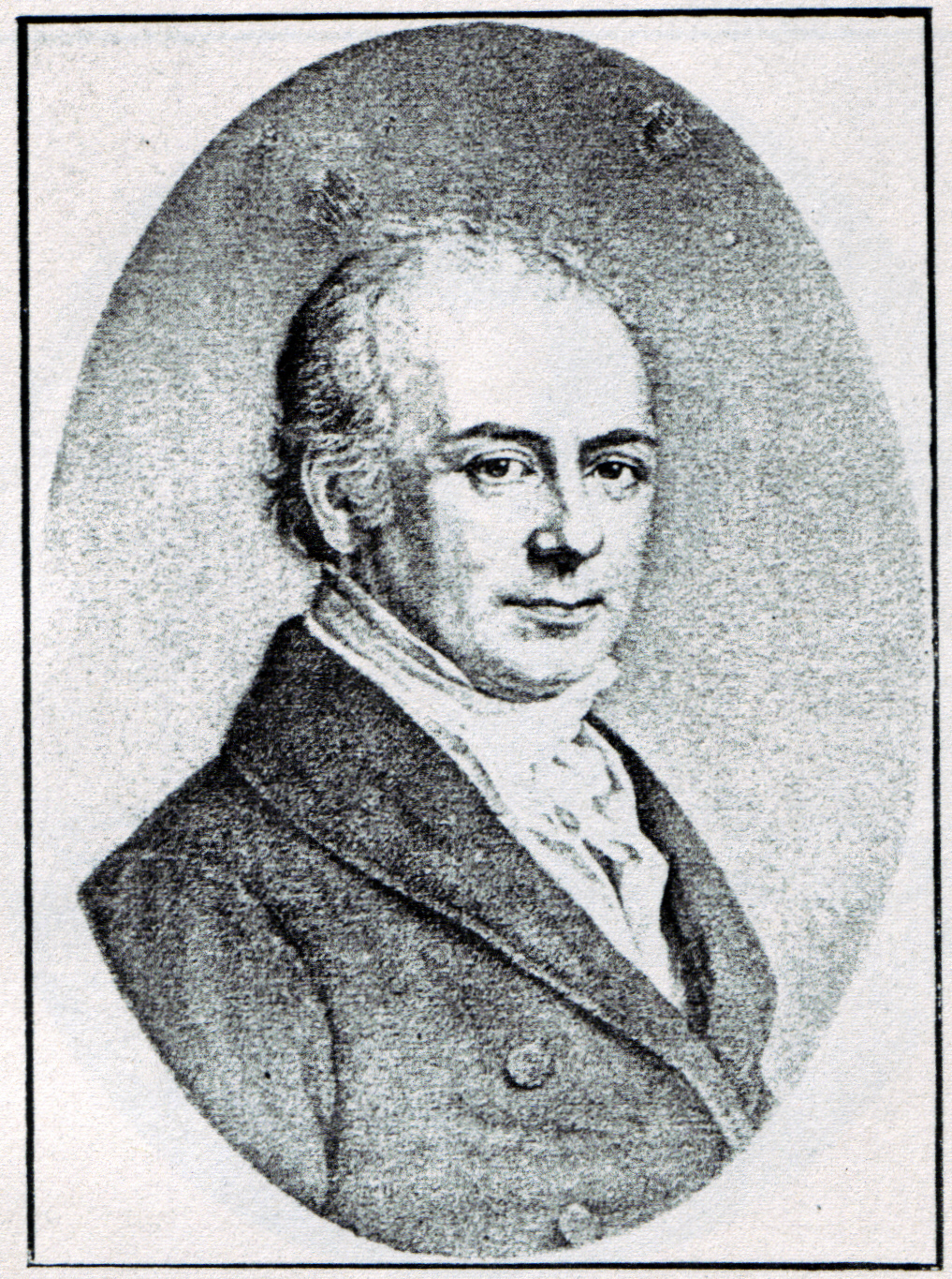 Portrait (Litho) Anton Diedrich Gütschow (* 1765; † 1833), maire (burgomaster) of Lübeck during French occupation